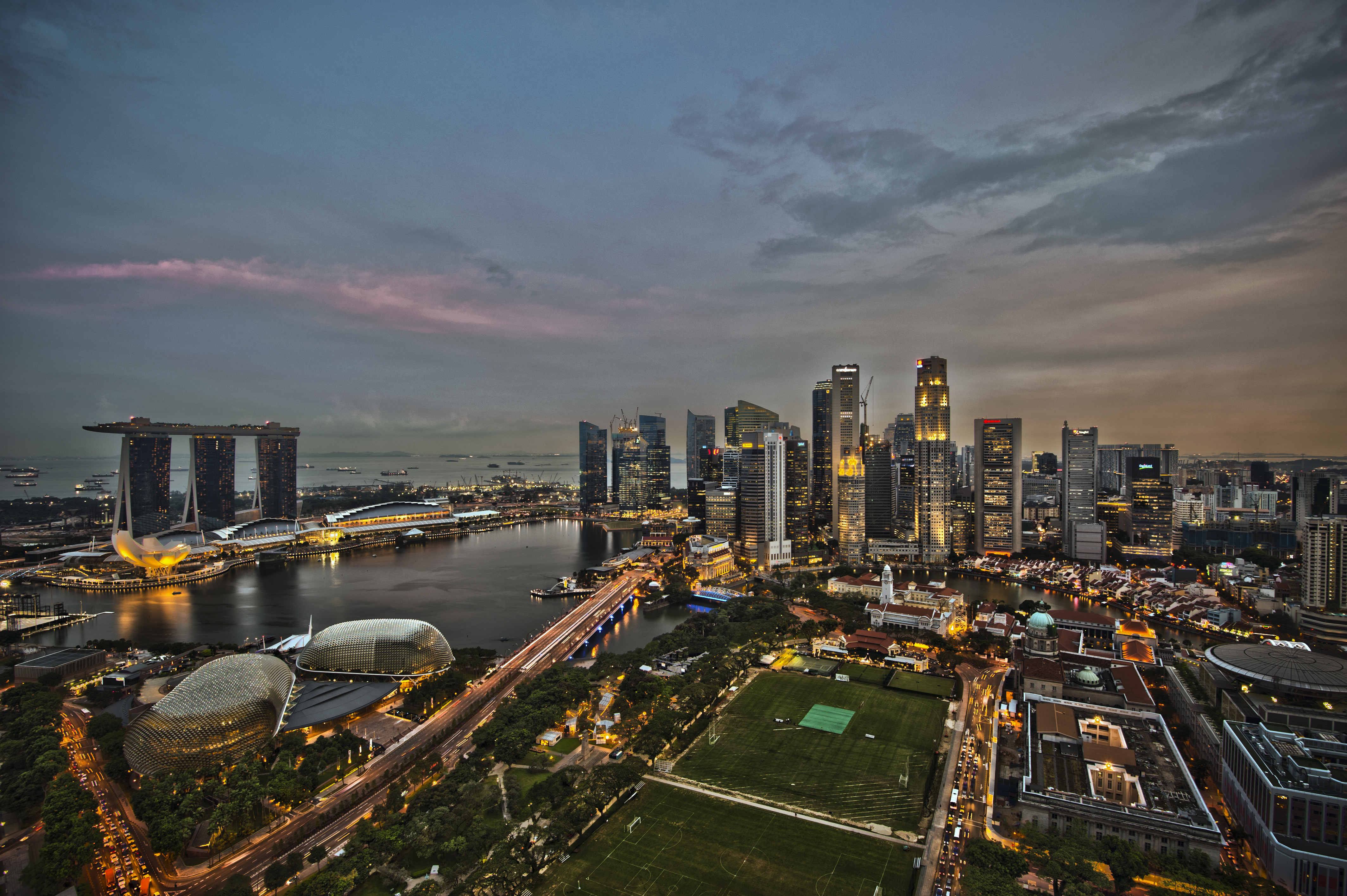 Skyline of Boat Quay in Singapore. The cluster of skyscrapers in the right half of the photograph constitutes the Central Business District of Singapore, and include the following buildings: UOB Plaza OUB Centre Supreme Court City Hall The buildings on the left half of the image include: Marina Bay Sands Esplanade